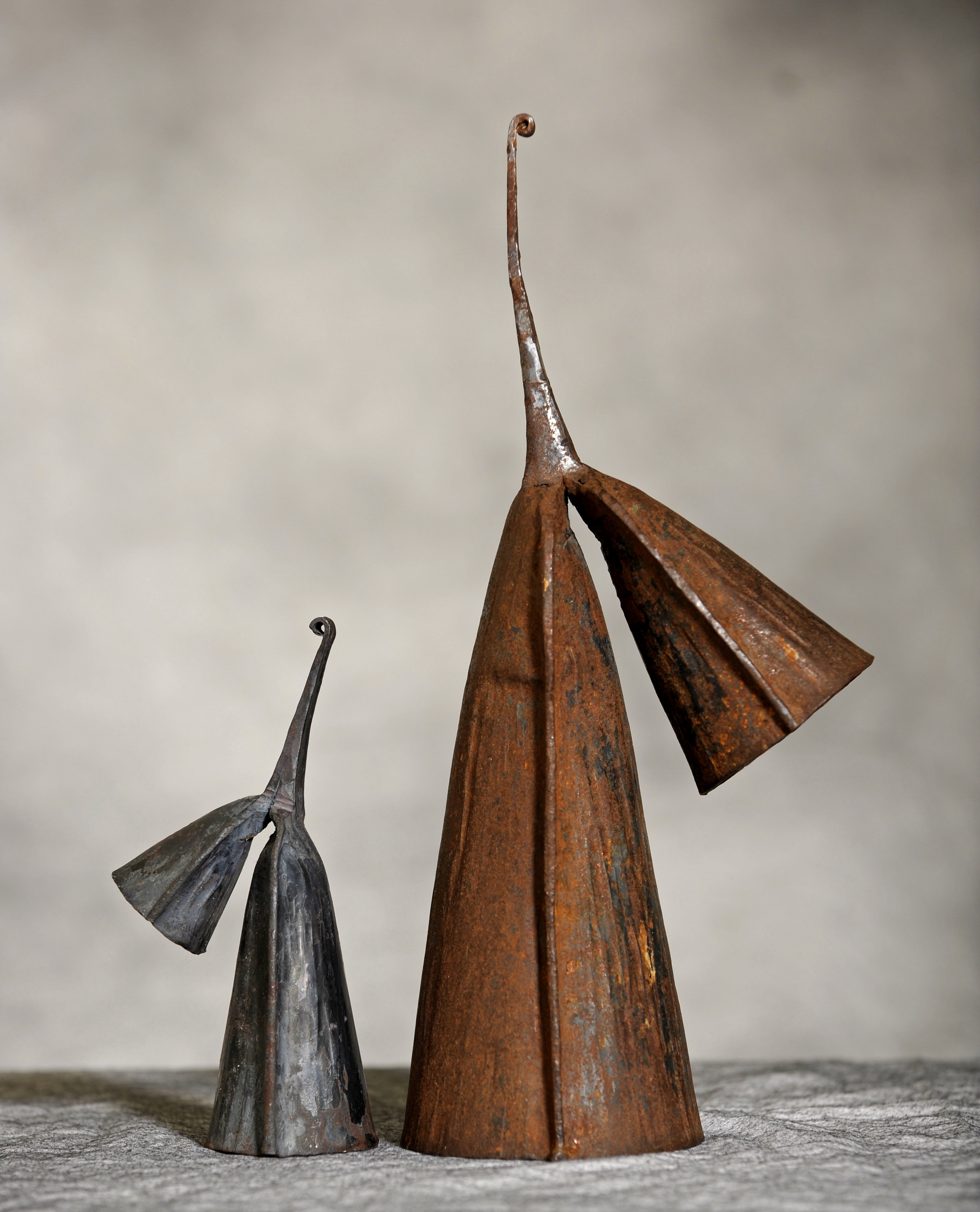 Ghanian iron gankoqui bells.